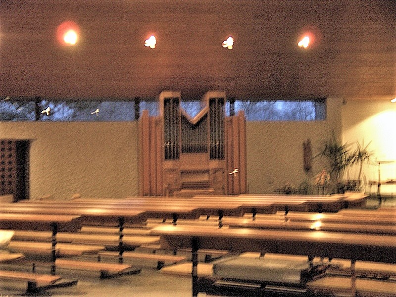 Interior of the roman catholic church in Türkismühle, Saarland